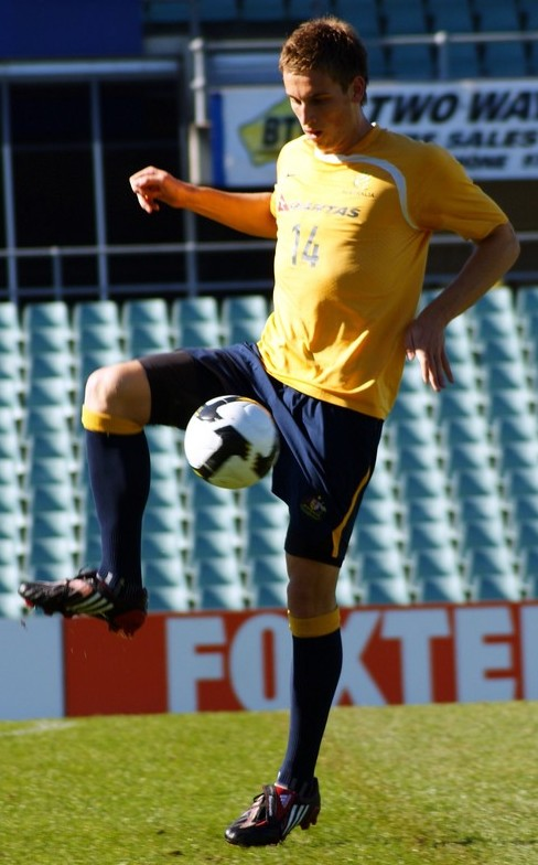 Matthew Spiranovic at Socceroos training